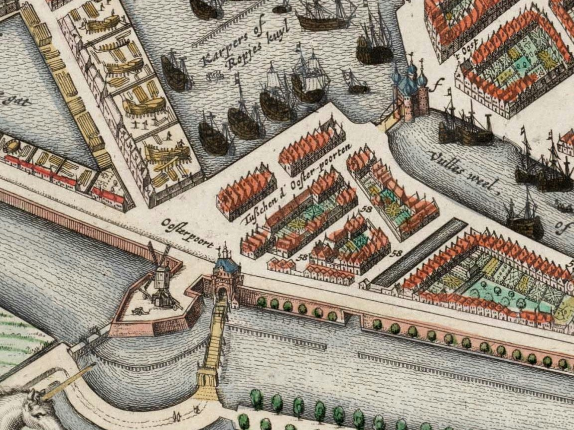 The old (dem. 1818) and the new Oosterpoort (Hoorn)|Oosterpoort (1578). From a map of Hoorn (NH, The Netherlands) by Johannes Blaeu, 1649.